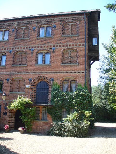 Ockham Mill Historic brick water mill, now residential, on the banks of the River Wey. Ockham village itself is on the other side of the busy A3 from the mill.